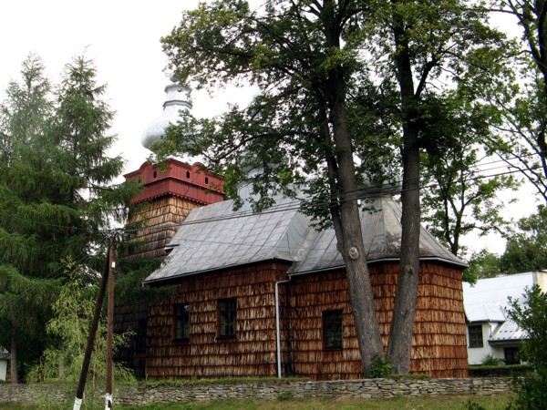 Greek Catholic church in Bogusza, PL